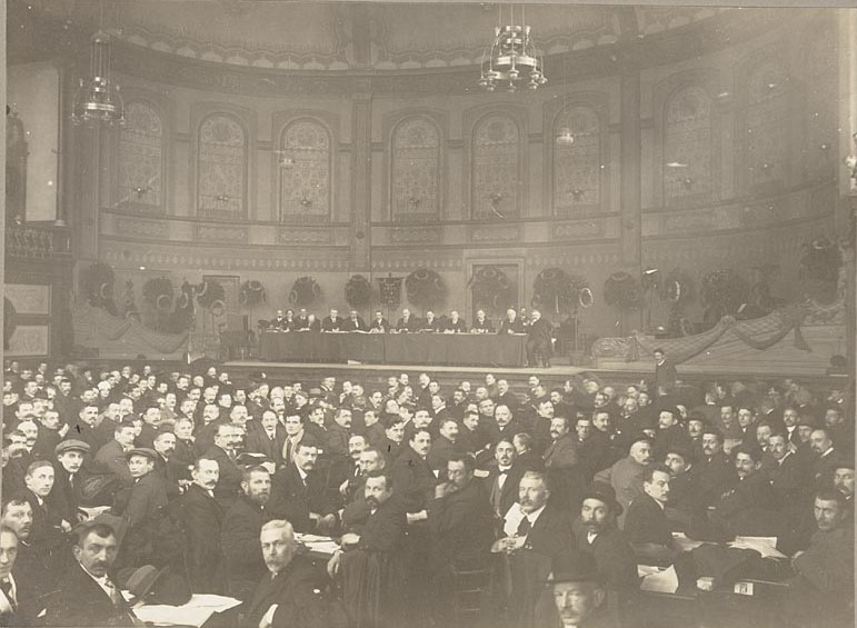 Buitengewoon congres SDAP op 23-25 december in Tivoli te Utrecht. Plaats van personen aangegeven op voor- en achterzijde foto. fotograaf: Leenheer, Corn., 1917, 23-25 december, BG B10/454 (foto), De Nederlandse arbeidersbeweging tot 1918, Internationaal Instituut voor Sociale Geschiedenis, Amsterdam.